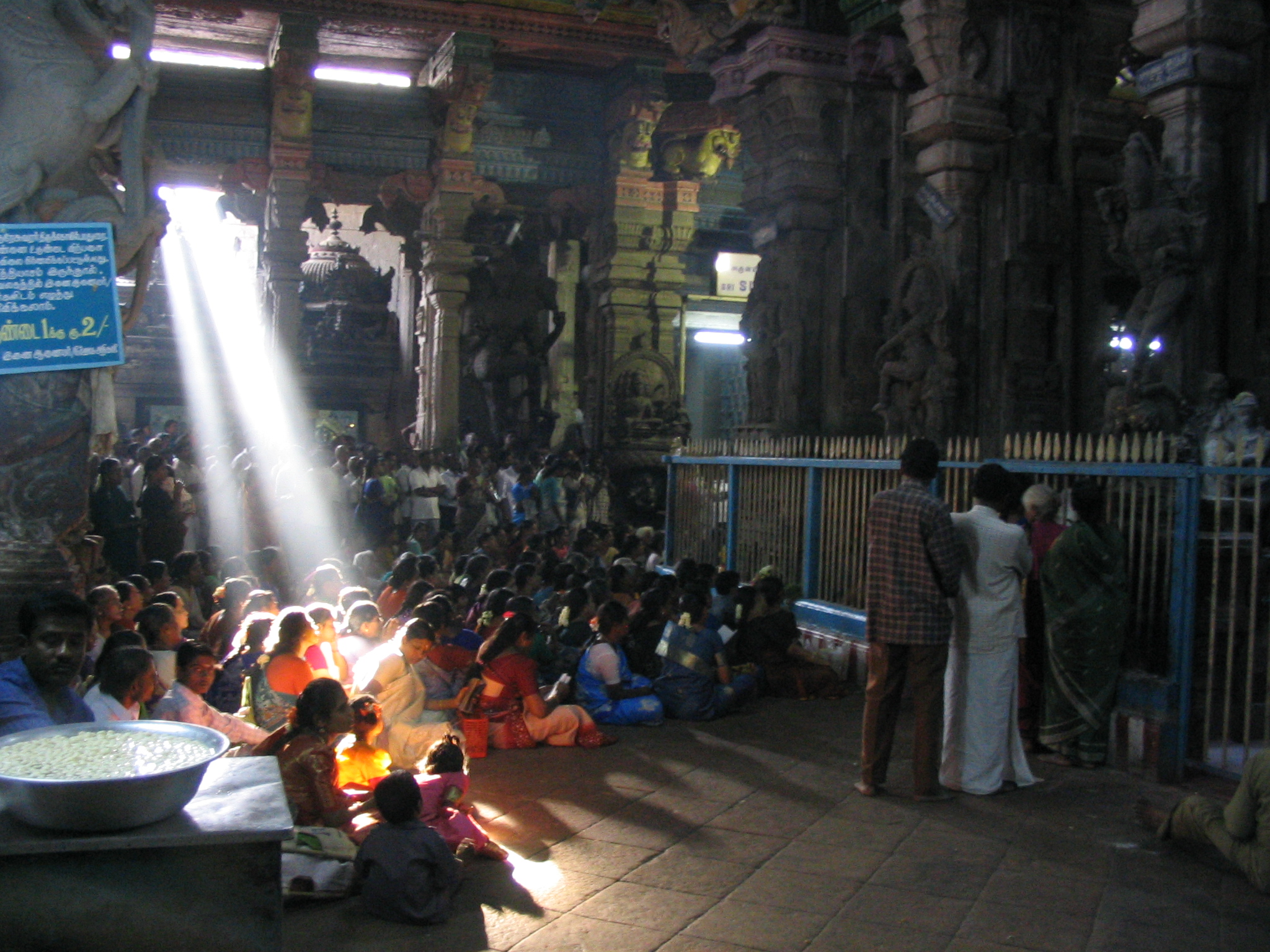 Shree Meenakshi-Sundareswar Temple, Madurai, Tamilnadu India